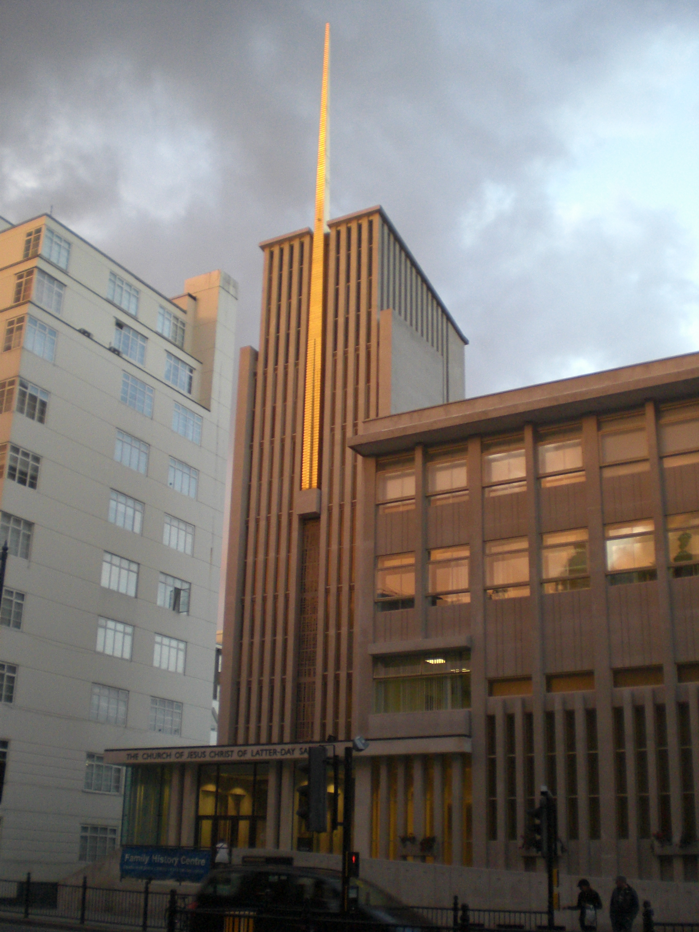 The Hyde Park Chapel, a meetinghouse of The Church of Jesus Christ of Latter-day Saints on Exhibition Road, in South Kensington, London.